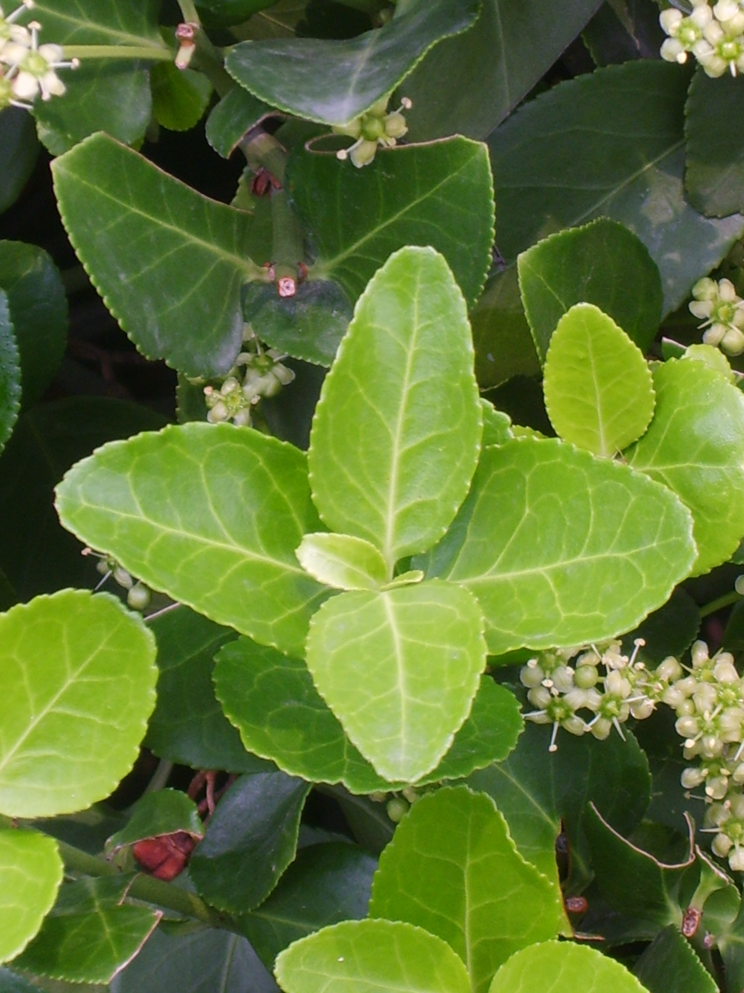 Euonymus japonicus in Bupyung, Korea